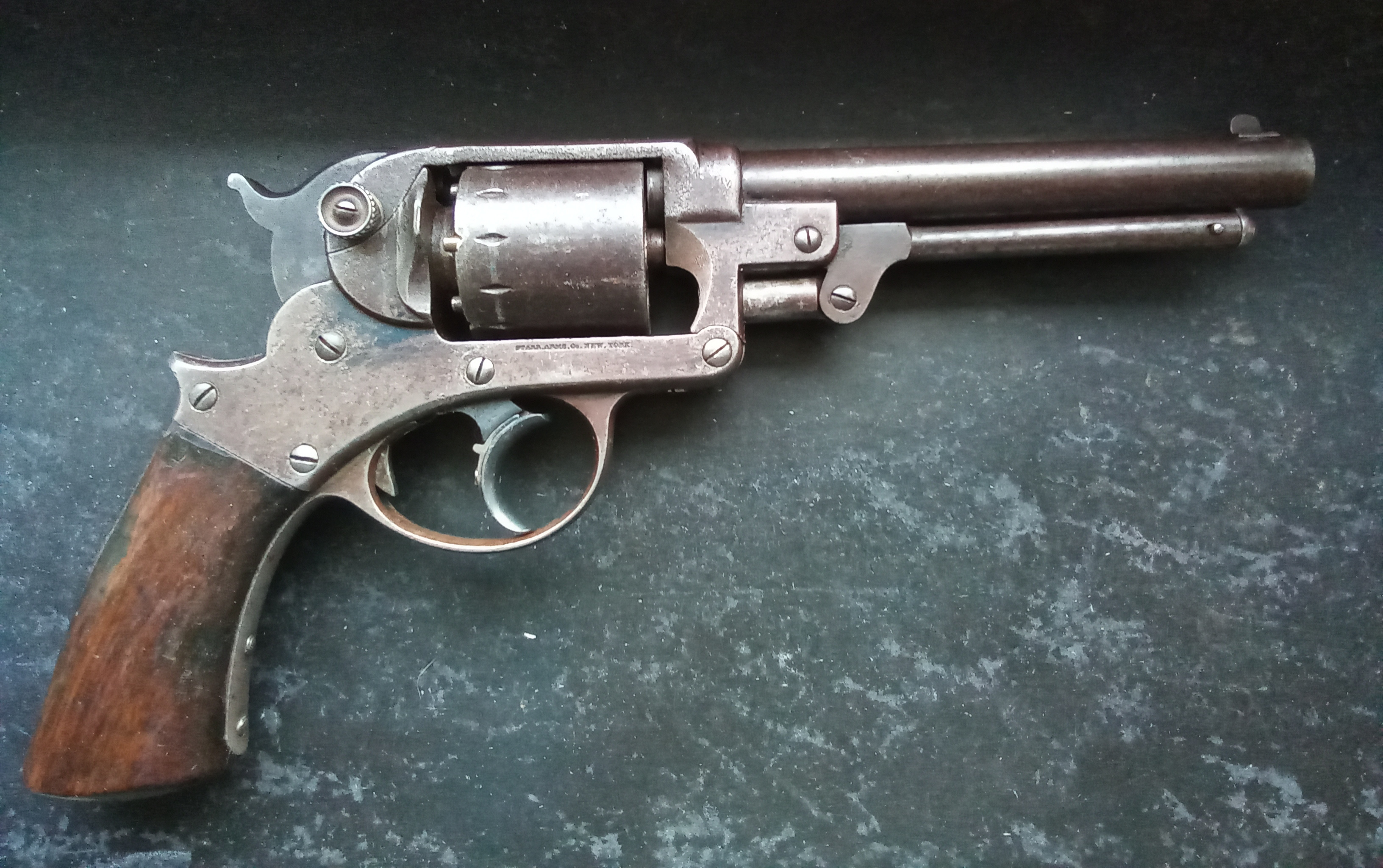 Picture of a Starr Dual Action .44 revolver of 1862.